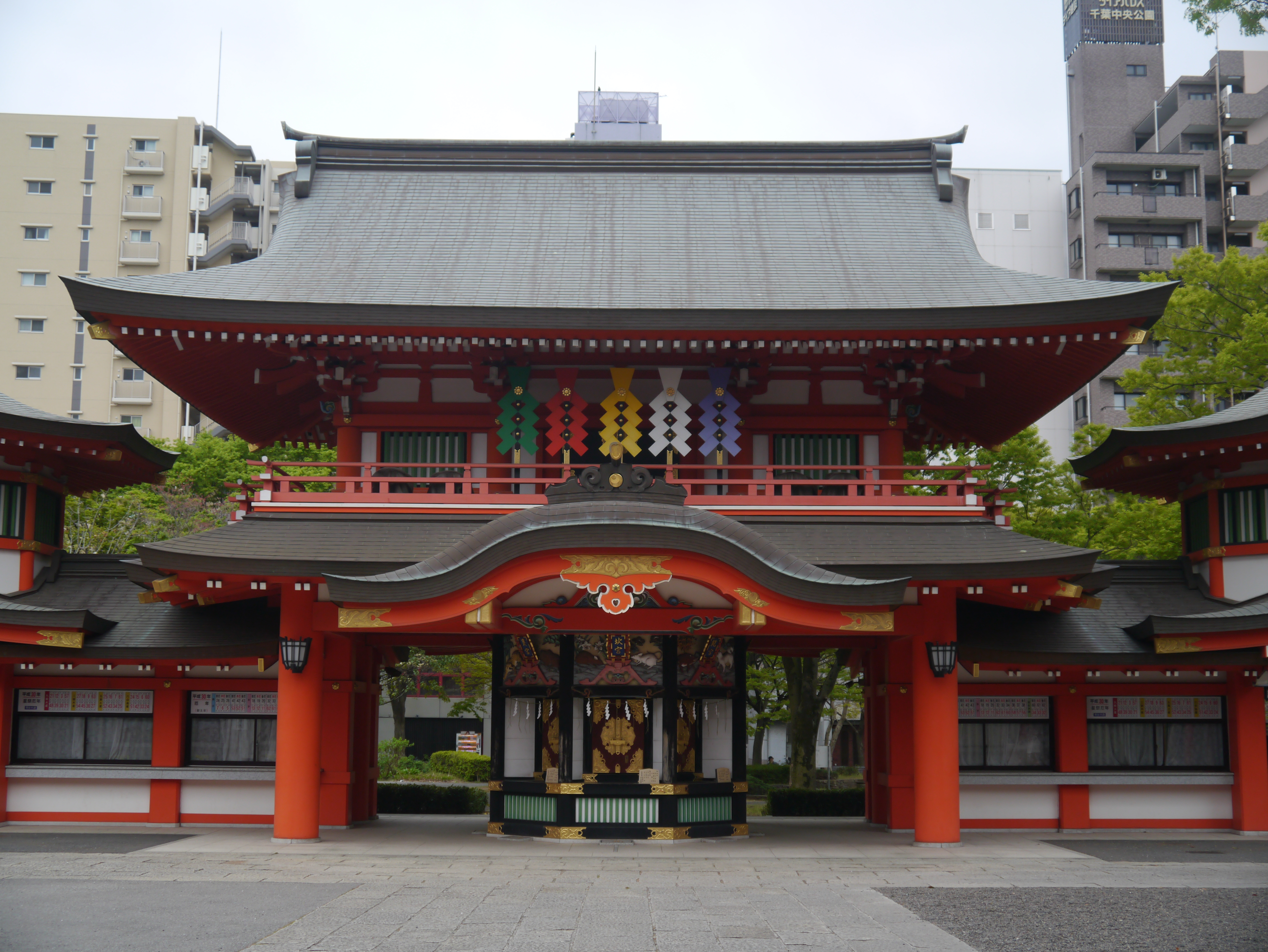 Gate of the Chiba Shrine, Chiba, Chiba Prefecture, Kanto Region, Japan